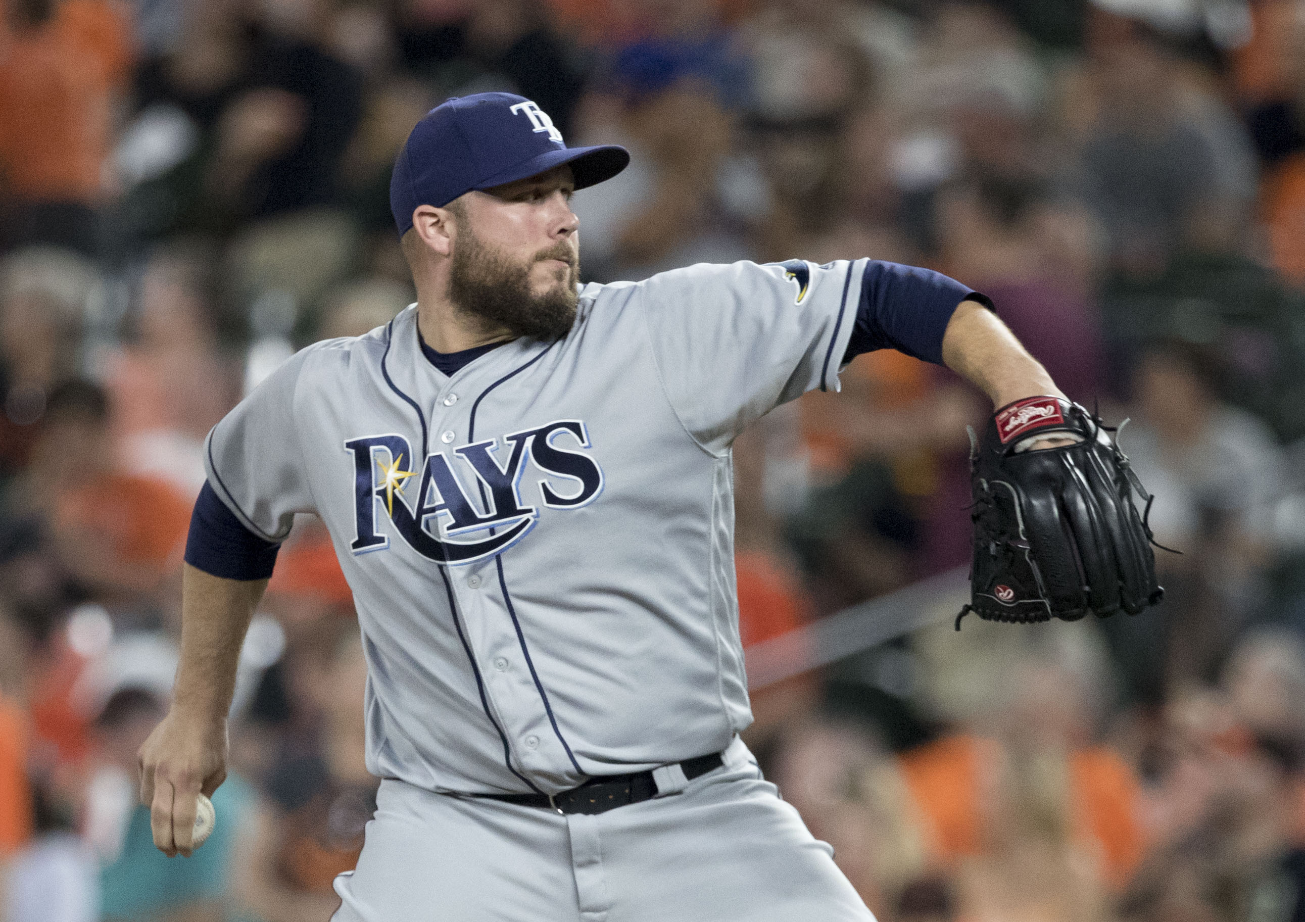 Rays at Orioles 6/30/17